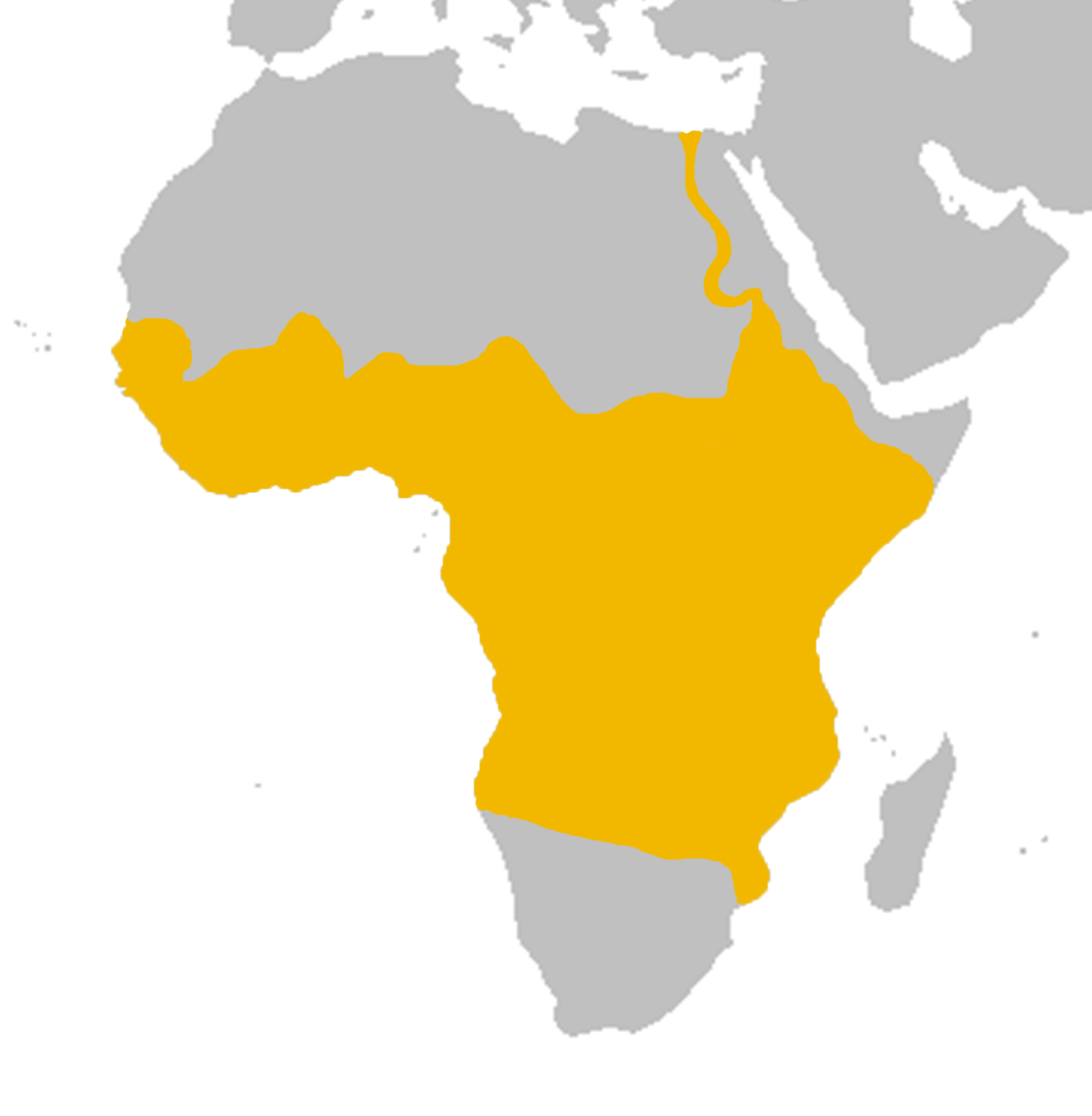 Geographic distribution of the Mormyridae (Category:Mormyridae).